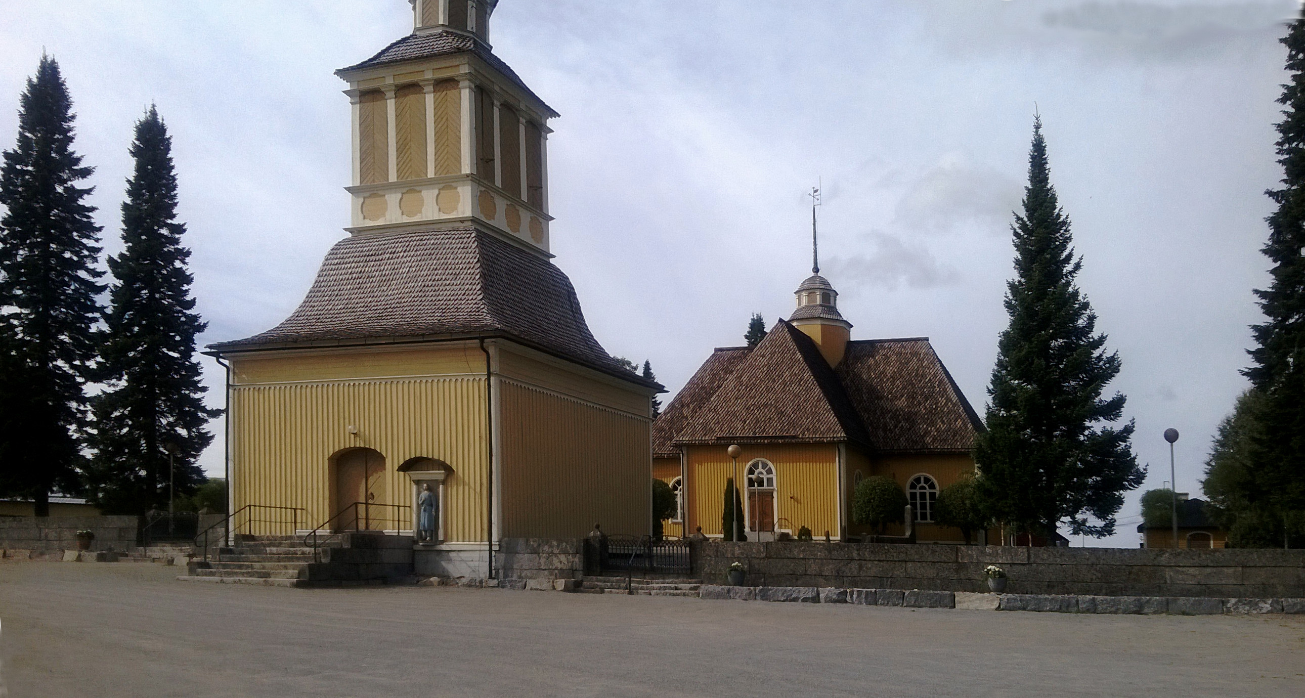 Esse Church in Pedersöre, Finland, dated to 1770